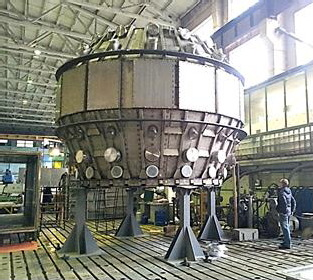 Vacuum vessel shell of the russian hybrid tokamak fusion-fission reactor T-15MD. The reactor is preassembled in Bryansk around 2015-2017 before T-15MD will be assembled at the Kurchatov Institute.[1] Some components are recycled from the sovjet T-15 tokamak from 1988.